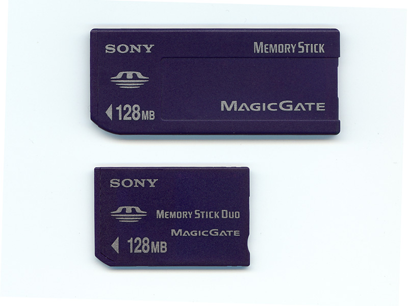 Sony Memory Stick MSH Series